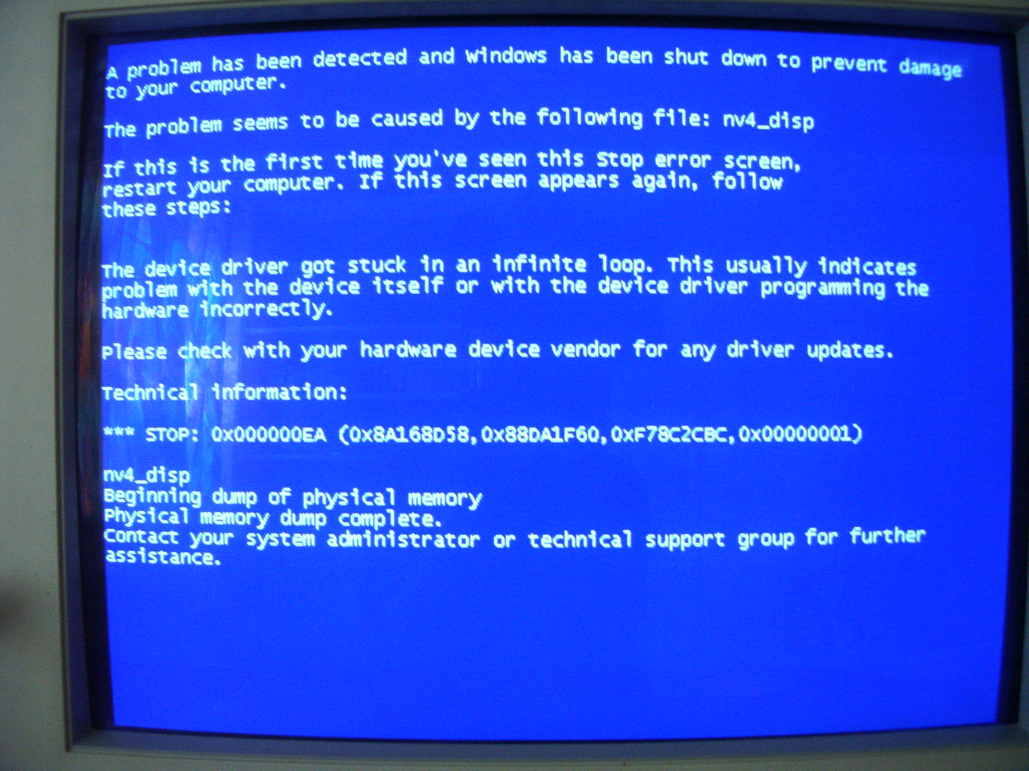 BSOD on Windows XP. Full memory dump enabled. "Device driver got stuck in an infinite loop".